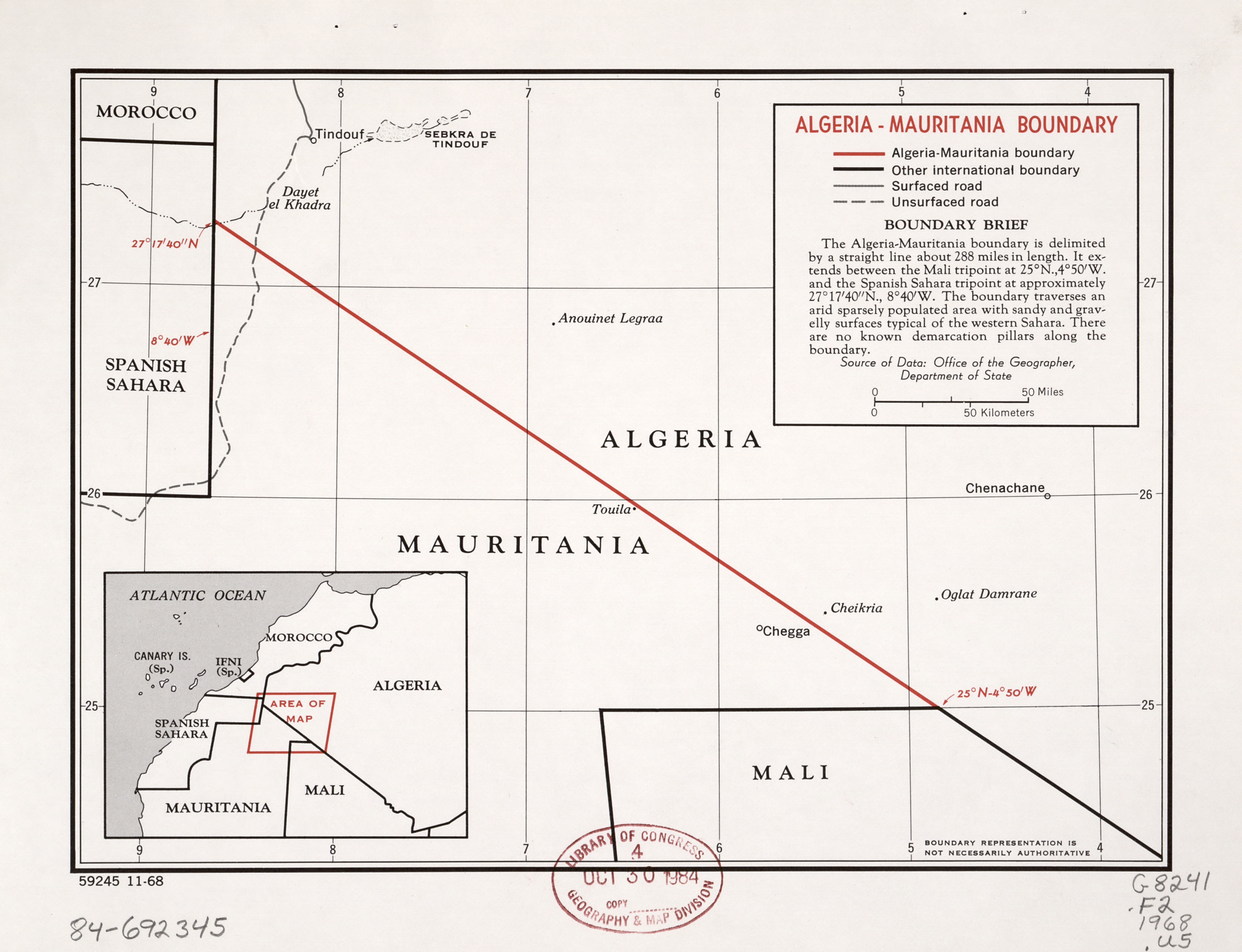 "59245 11-68." "Source of data: Office of the Geographer, Department of State." Includes note and key map. Scale [ca. 1:2,500,000] (W 90--W 40/N 280--N 240).